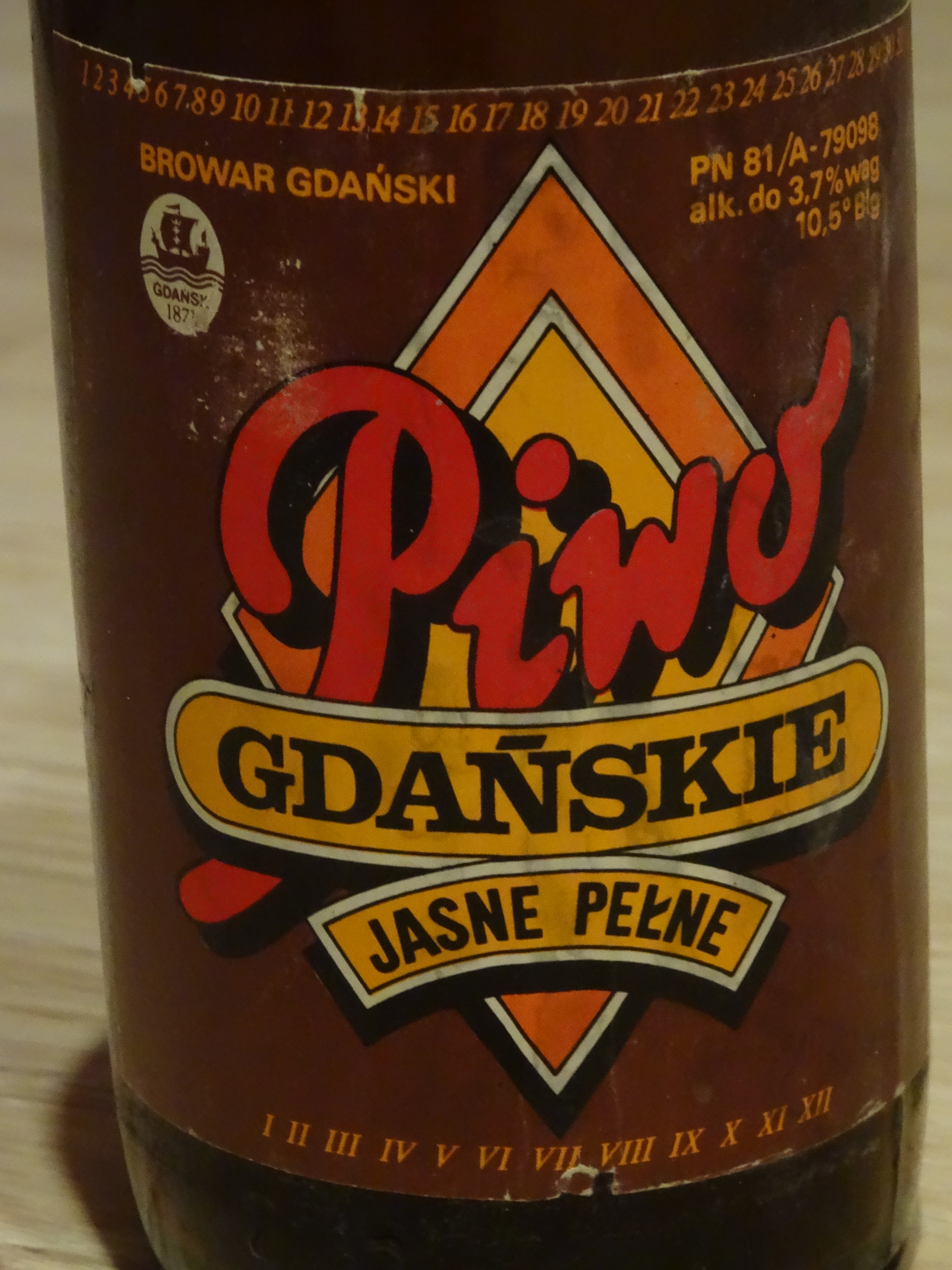 Gdańskie Beer - label of 1980s